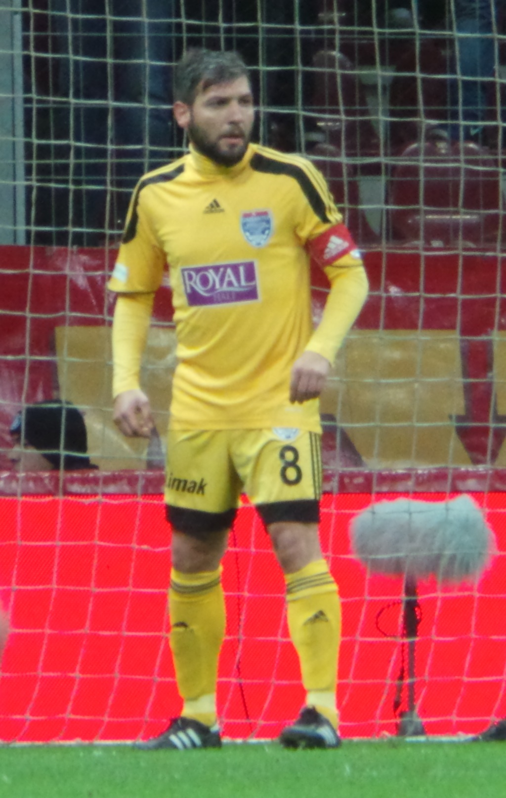 Ali Sakal